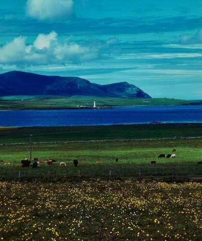 View from The Mainland Orkney (Cairston) iver Graemsay (Hoy High Lighthouse) to Hoy (Ward Hill and Cuilags) / Orkney original copyright 1999 Wolfgang Schlick (aka Islandhopper) shot taken in 1999 cut offs published before from the authors archive Islandhopper 14:44, 30 July 2006 (UTC)